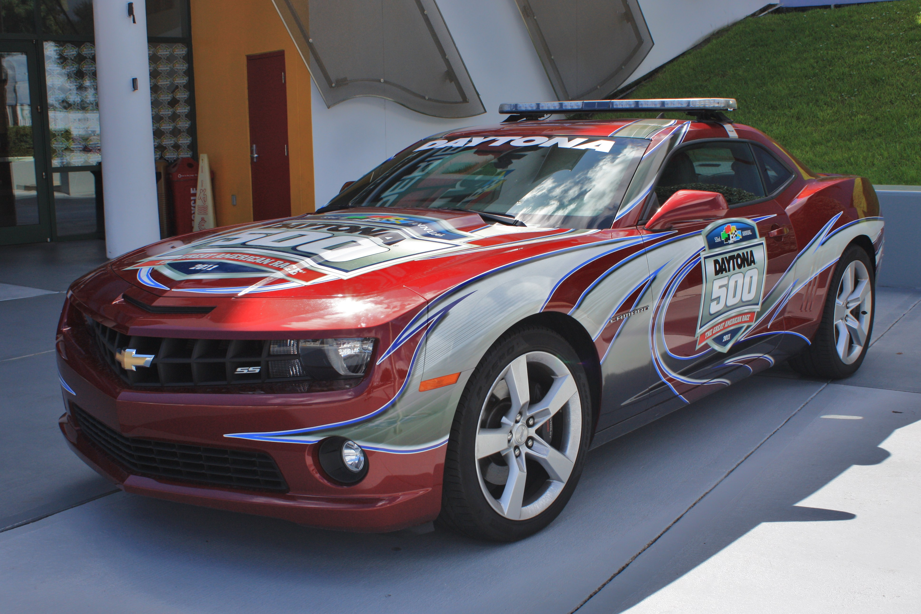 The pace car for the 2011 Daytona 500, held at Daytona International Speedway.